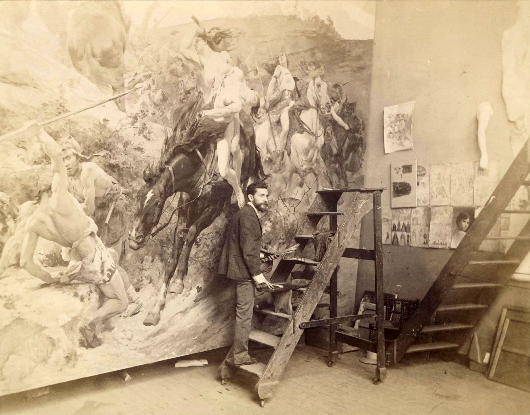 Arturo Micheleno in his Paris studio